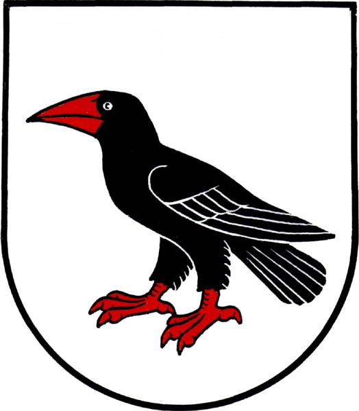 Municipal coat of arms of Roztoky village, Rakovník District, Czech Republic.